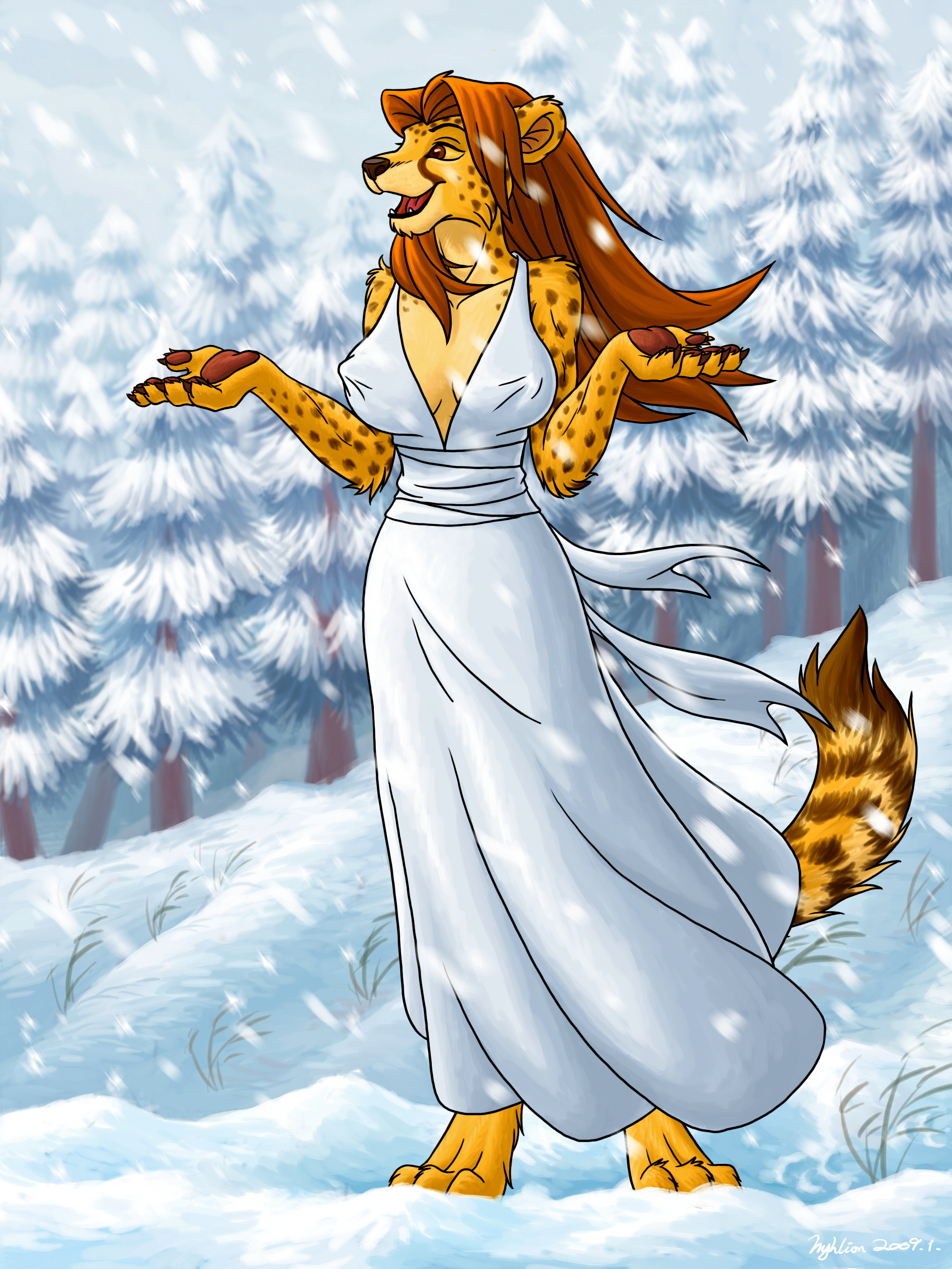 One of the eleven variants of the artwork Winter Lady, featuring the cheetah character “Fahada”.